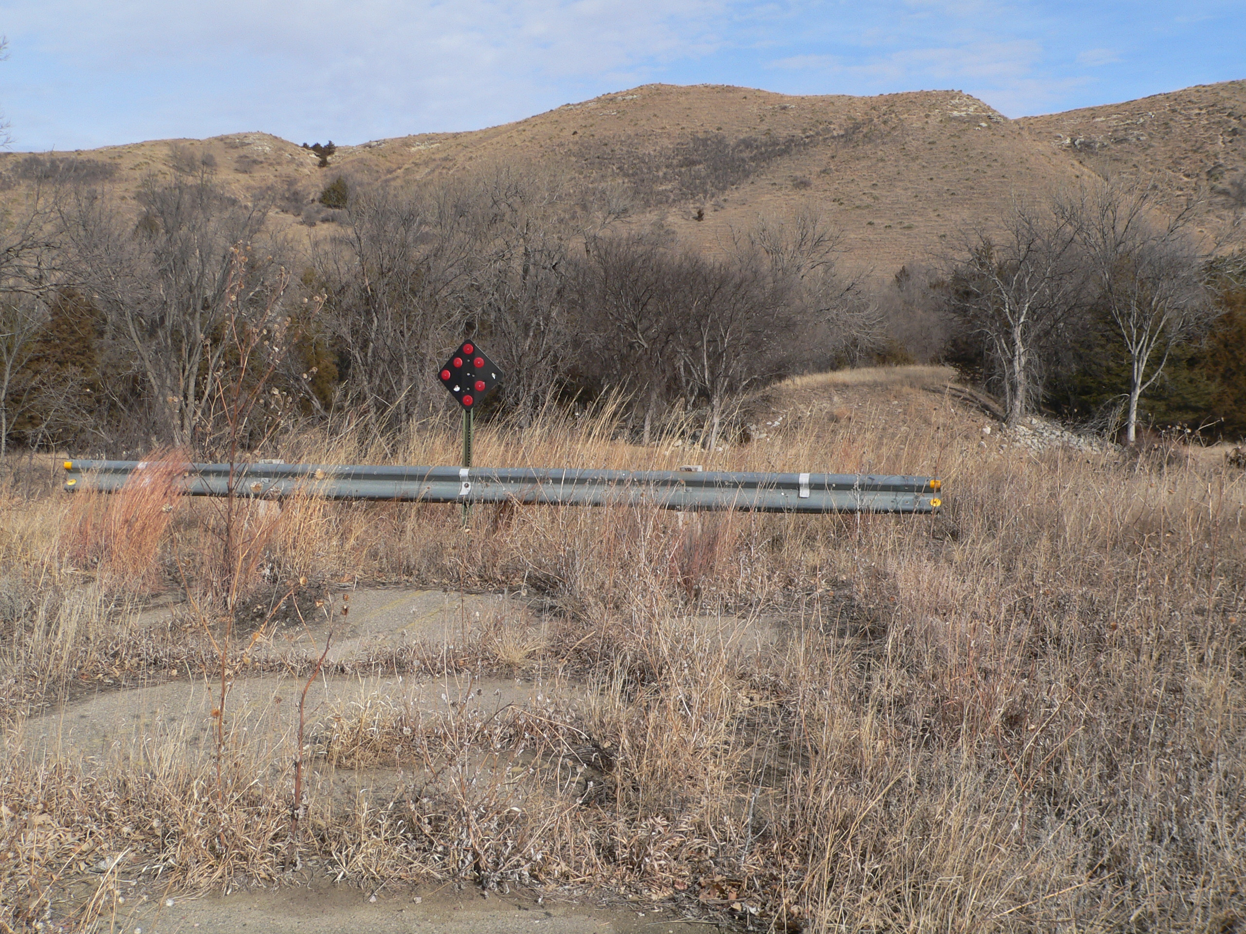 Adamson Bridge site (former crossing of Niobrara River by Nebraska Highway 97), about a quarter-mile upstream from the current highway crossing, in Cherry County, Nebraska. Photo taken from south bank. In the foreground are the remains of the old highway's pavement; on the north bank, beyond the right end of the guardrail, is the abutment site for the old bridge.